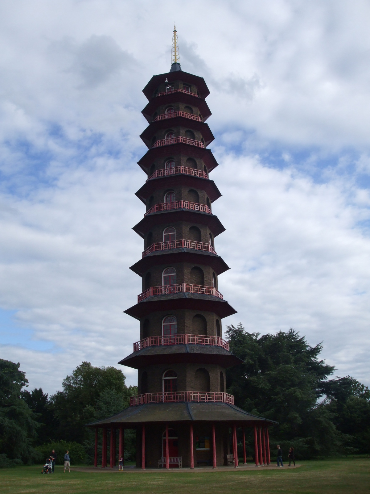 The Pagoda at Kew Gardens, London